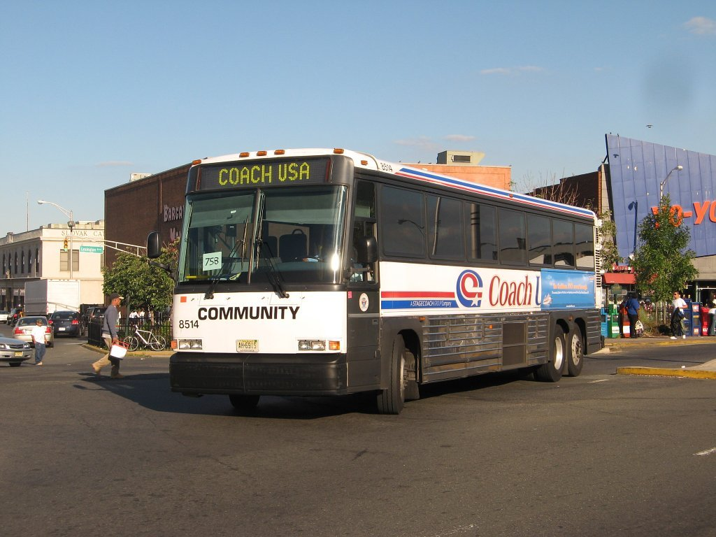 Coach USA Community Coach bus #8514, owned by New Jersey Transit and operating in service for it on its 758 line, in Passaic, New Jersey.